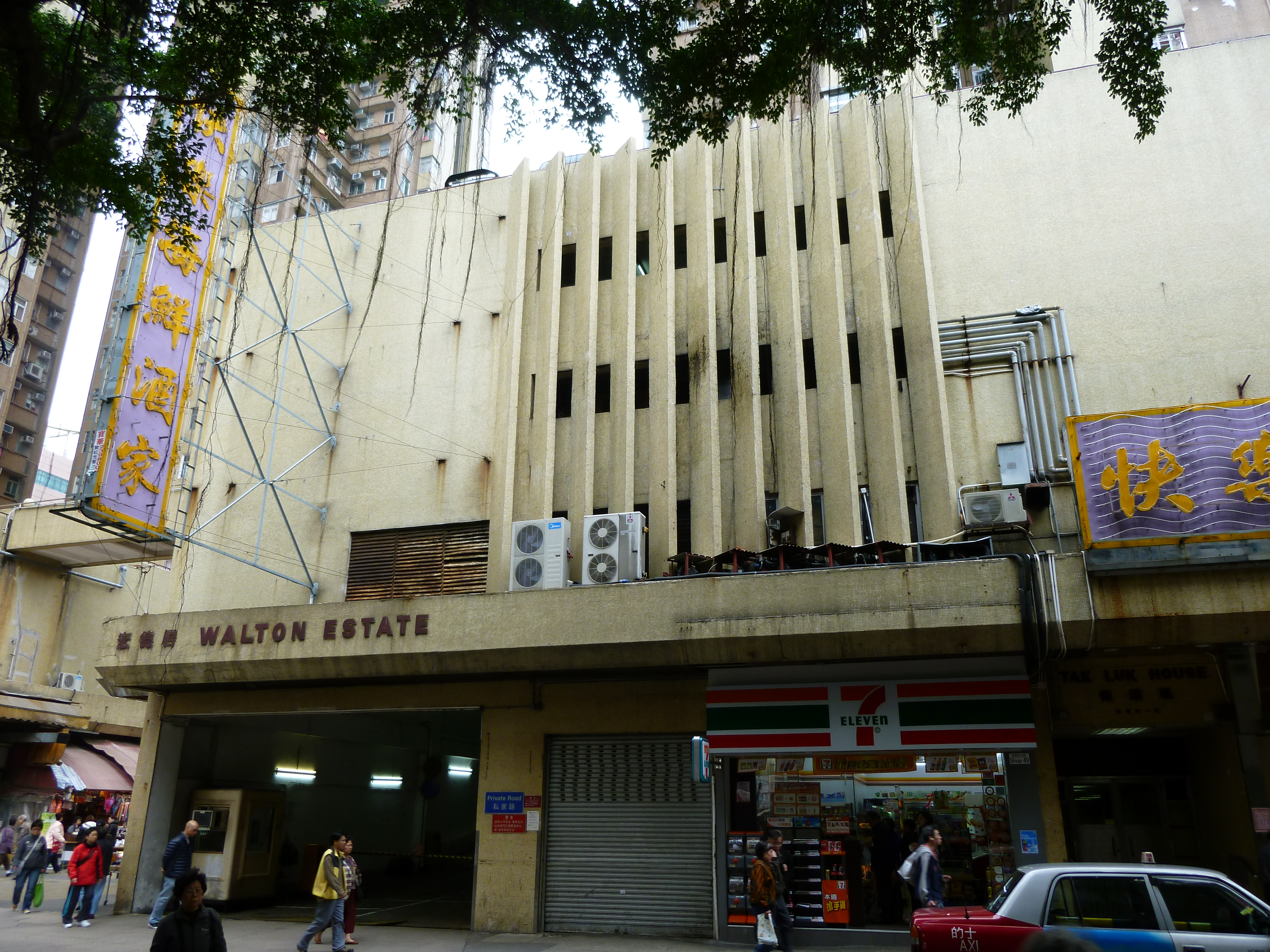 Walton Estate (343 Chai Wan Road, Chai Wan, Hong Kong)